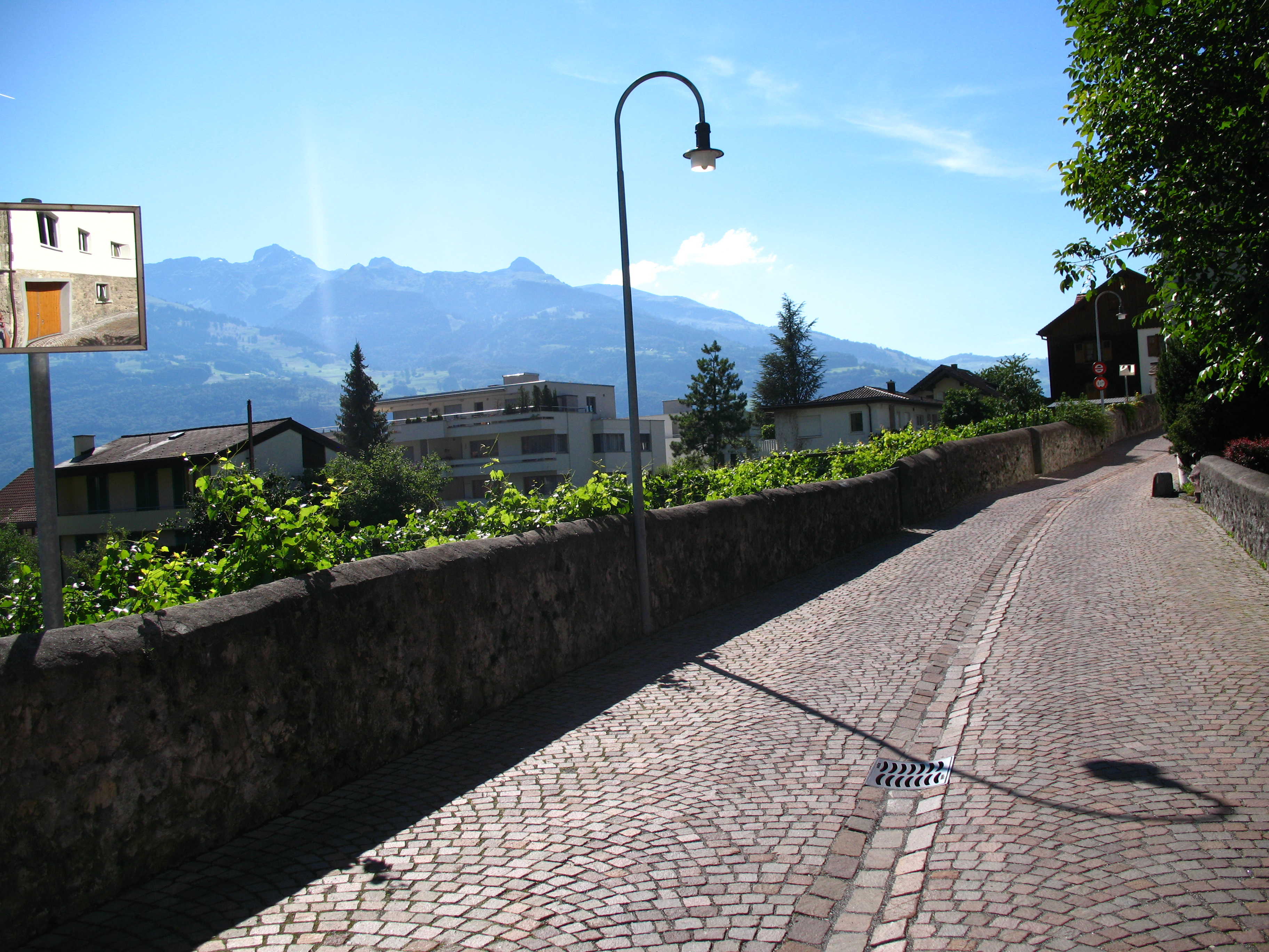 Mitteldorf, Vaduz, Liechtenstein